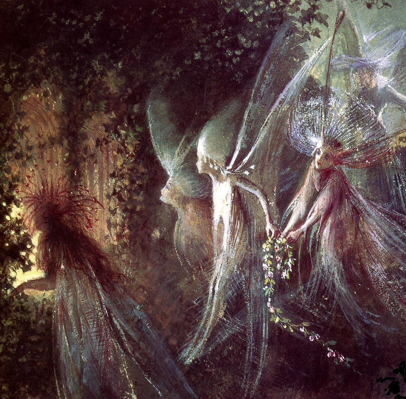 Faeries Looking Through a Gothic Arch